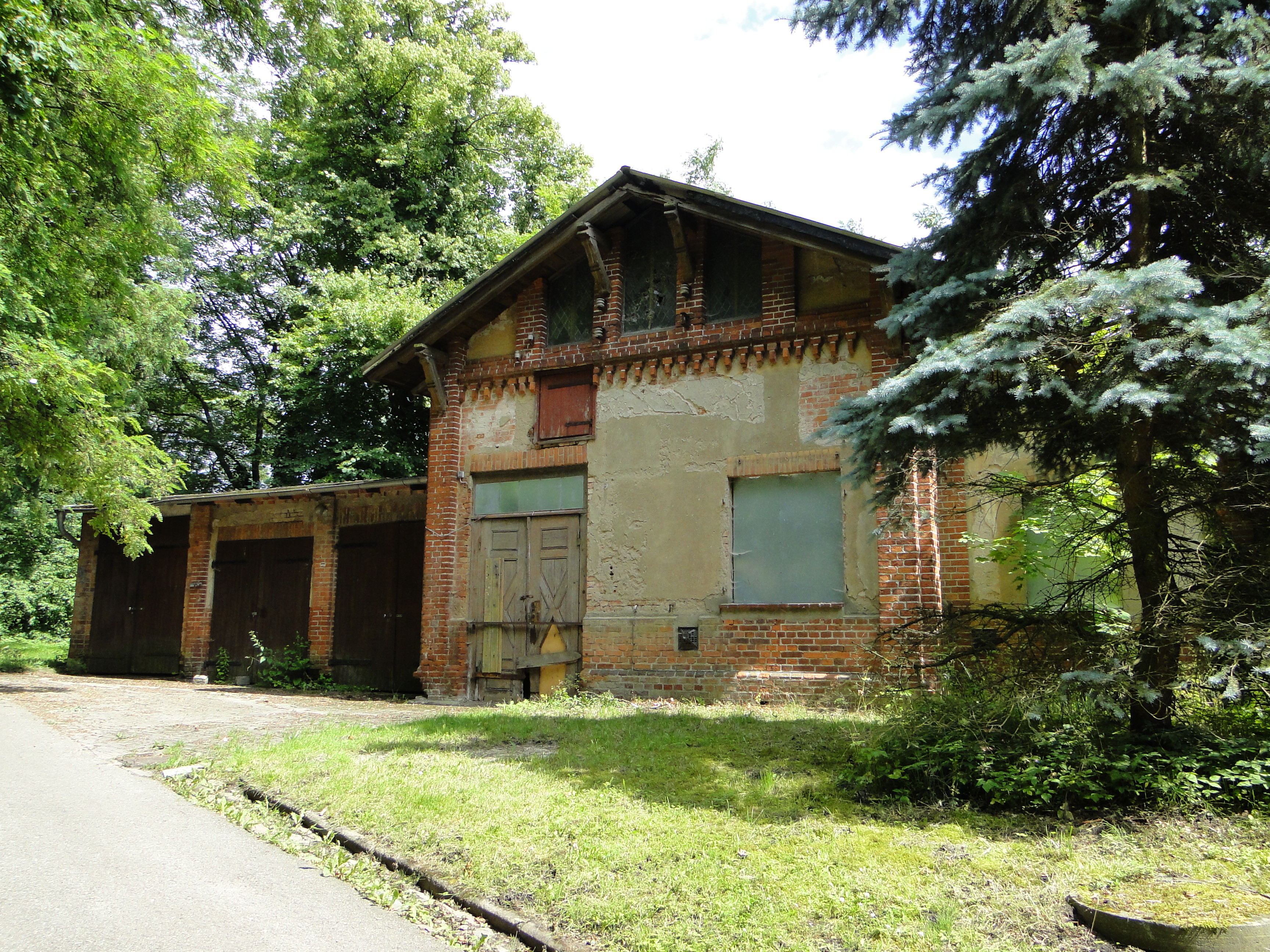 Old cemetery in Schwerin, Mecklenburg-Vorpommern, Germany